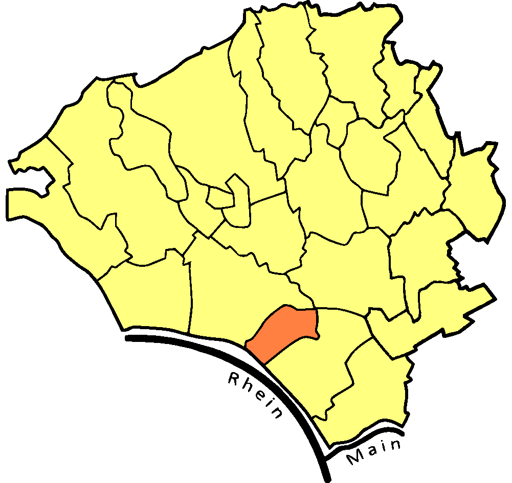 Map of Wiesbaden showing the location of Amöneburg